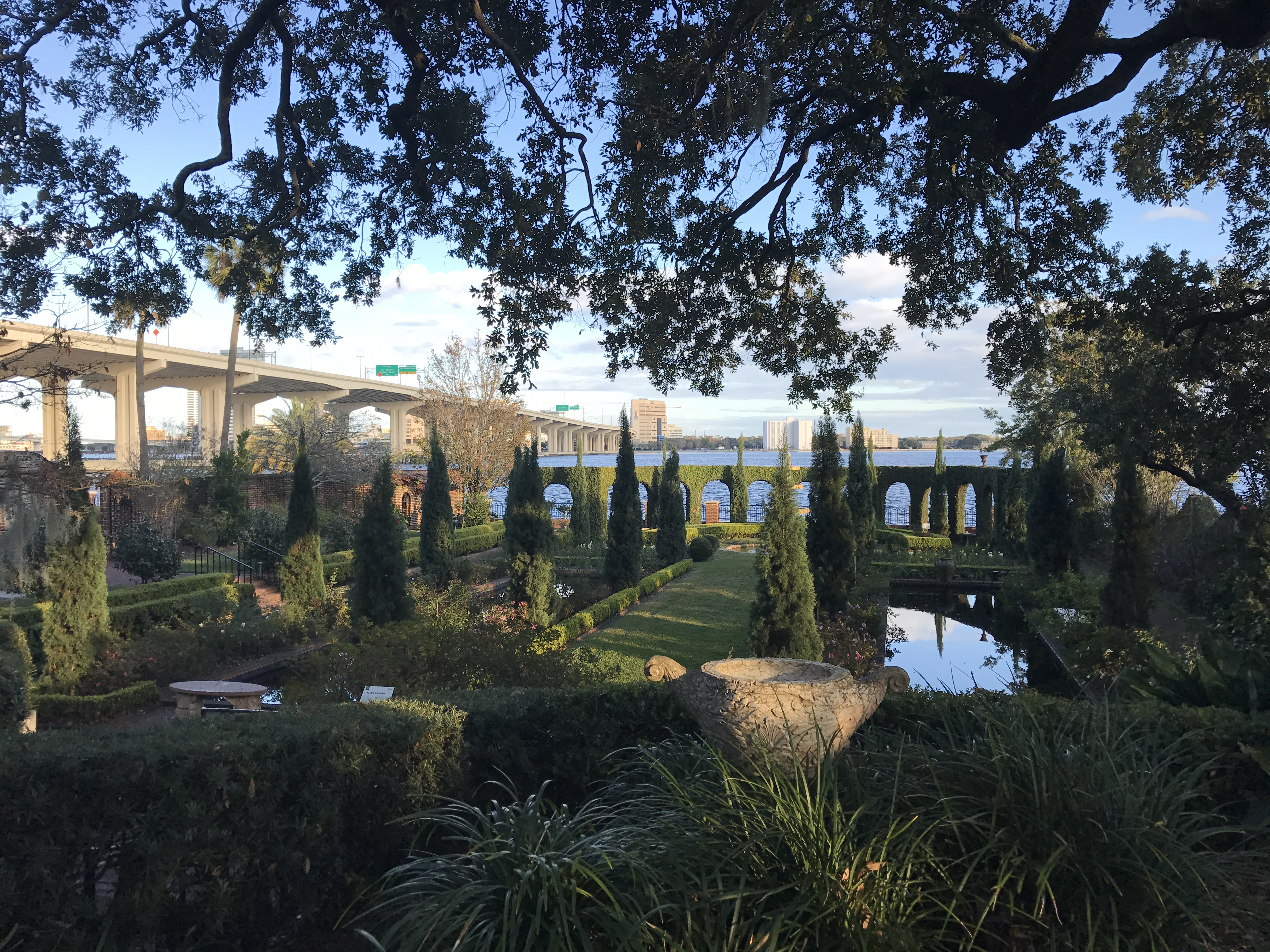 The Italian Garden located at the Cummer Museum in Jacksonville, Florida. Designed by Ellen Biddle Shipman.